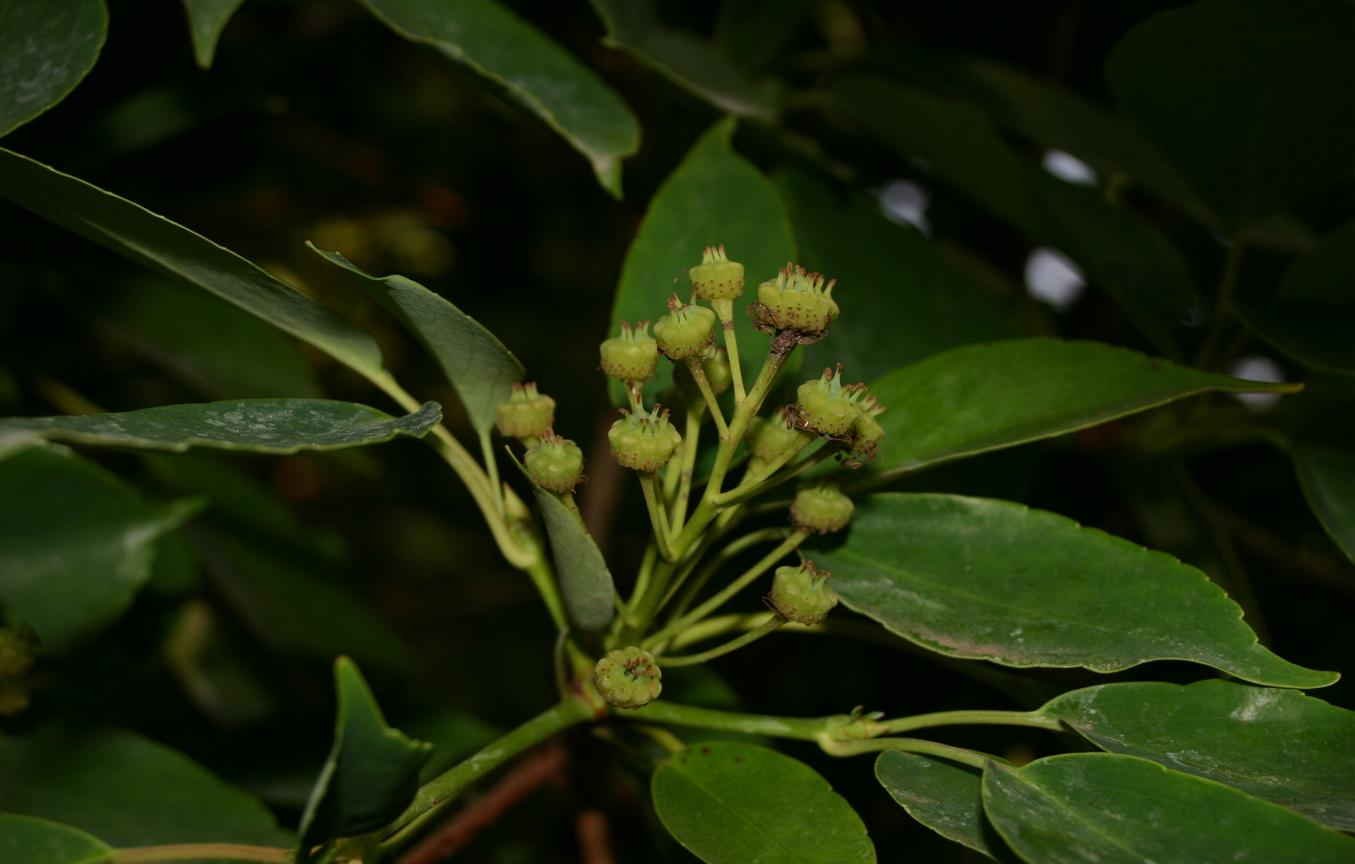 Trochodendron aralioides: Flowers and foliage.